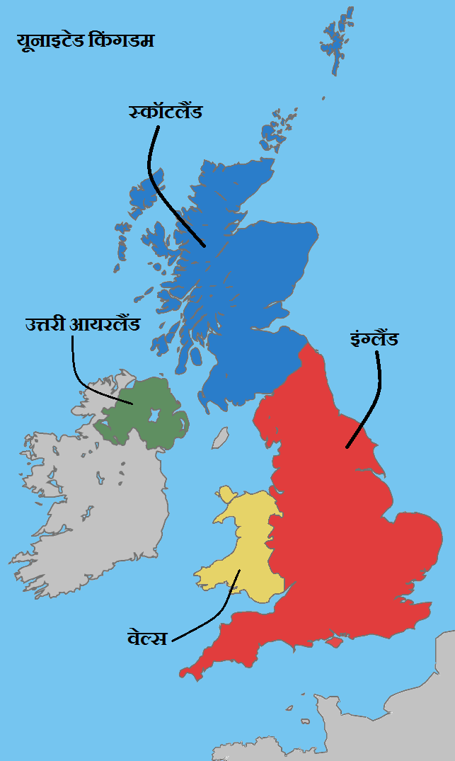 Countries in United Kingdom